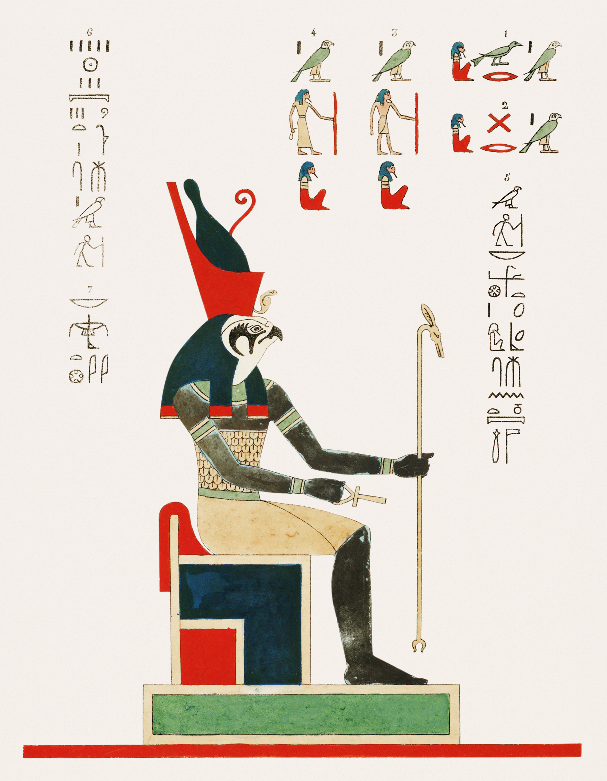 Horus illustration from Pantheon Egyptien (1823-1825) by Leon Jean Joseph Dubois (1780-1846). Digitally enhanced by rawpixel.